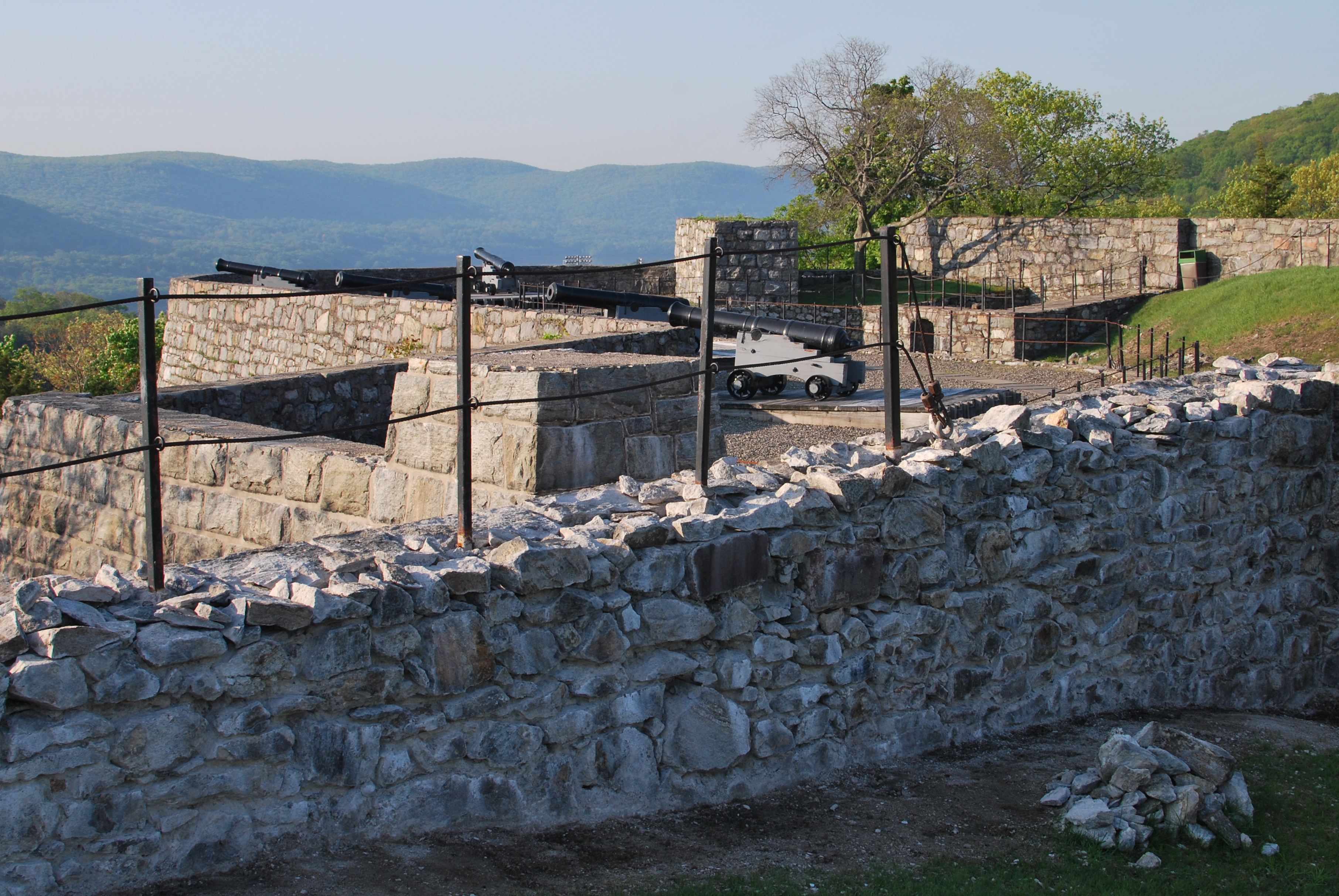 Fort Putnam's west wall and guns, facing the Hudson River, looking south, 1 May 2010